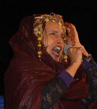 Cropped version of Malouma 2004.jpg, Malouma in performance in Mauritania, 2004